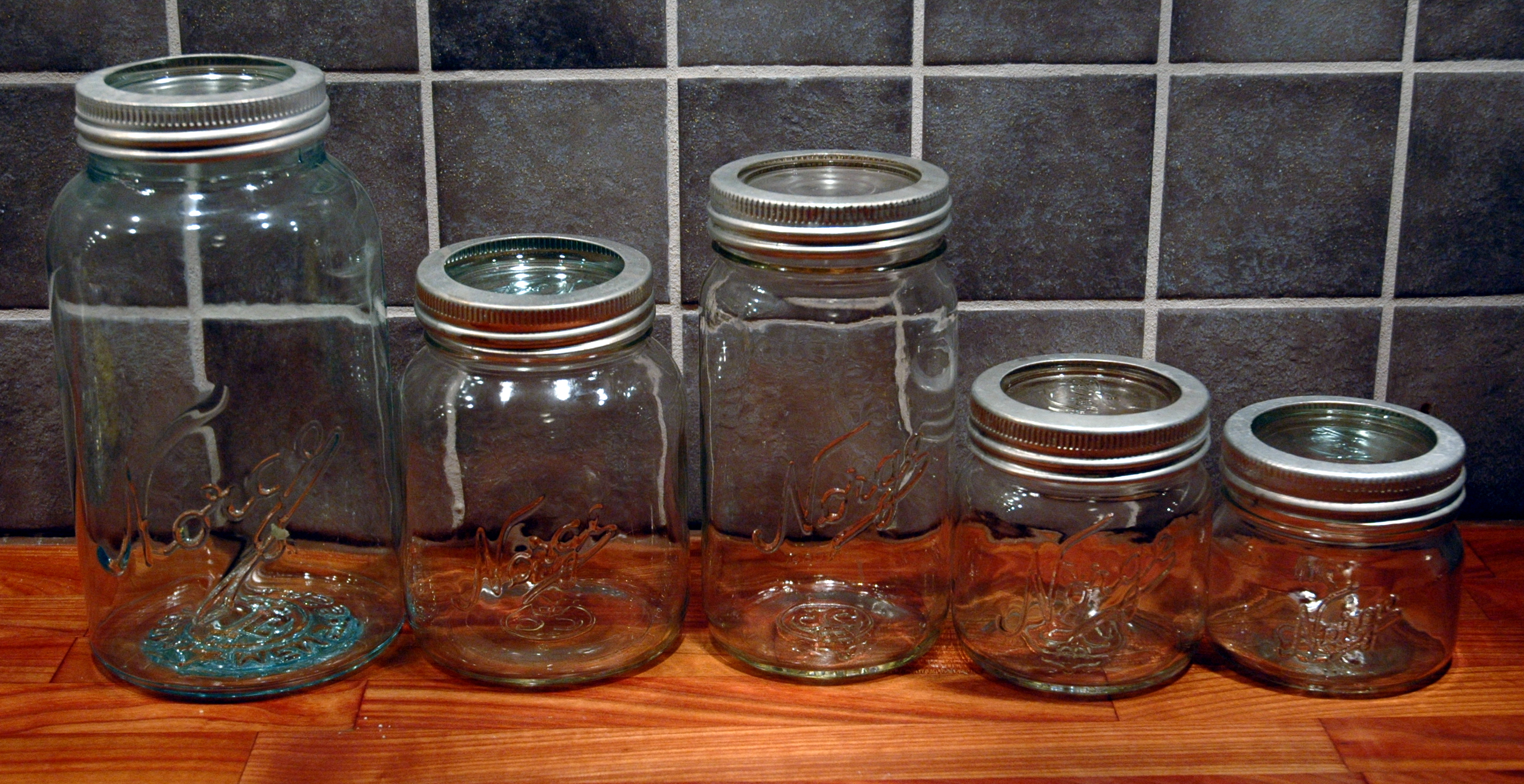 Norwegian jar,type "Norgesglass" My own photography, Kjetil Lenes